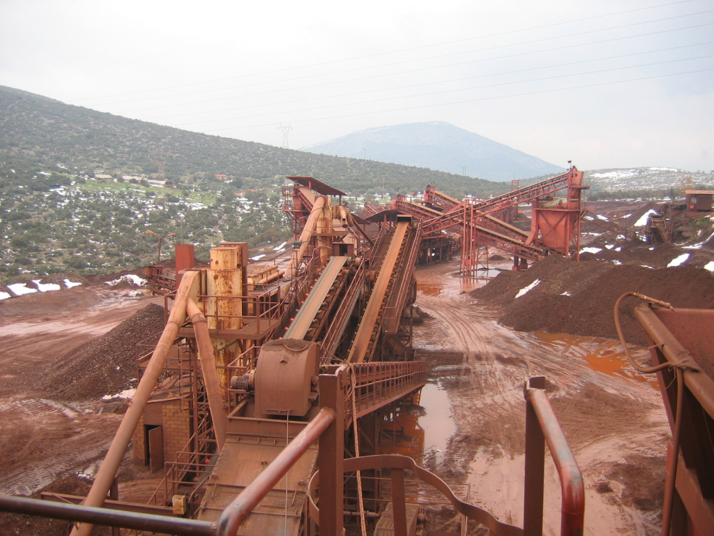 Greek laterite Ni-Fe ore crushing facility Larco